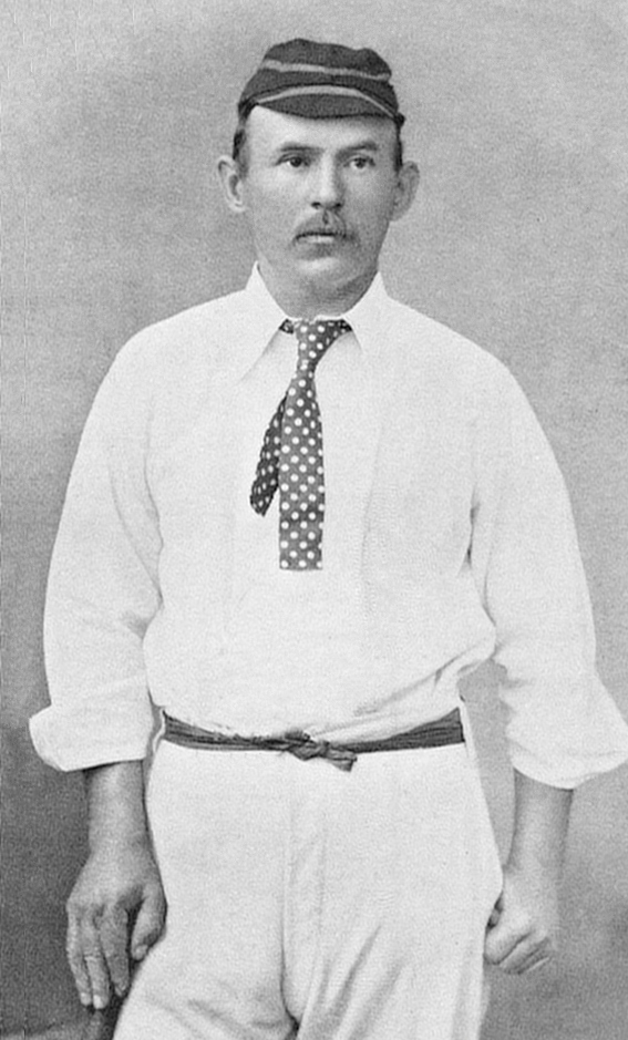 Nottinghamshire and England cricketer Arthur Shrewsbury (1856 - 1903), circa 1895.